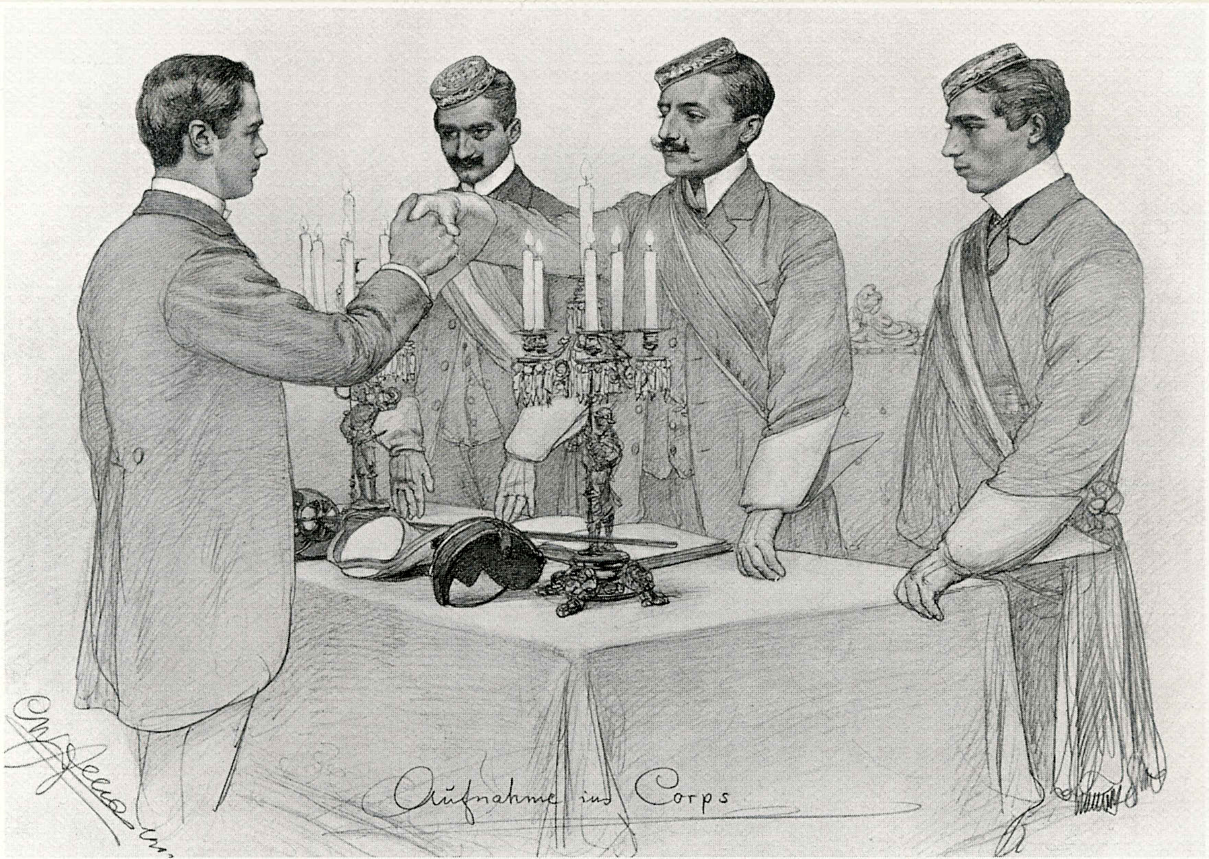 Admittance to the corps, a German student corps awards membership to a student.